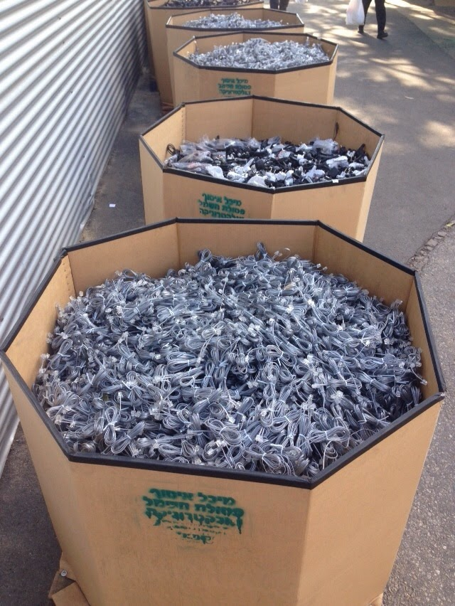 מיחזור פסולת אלקטרונית, מ.א.י - תאגיד מיחזור אלקטרוניקה